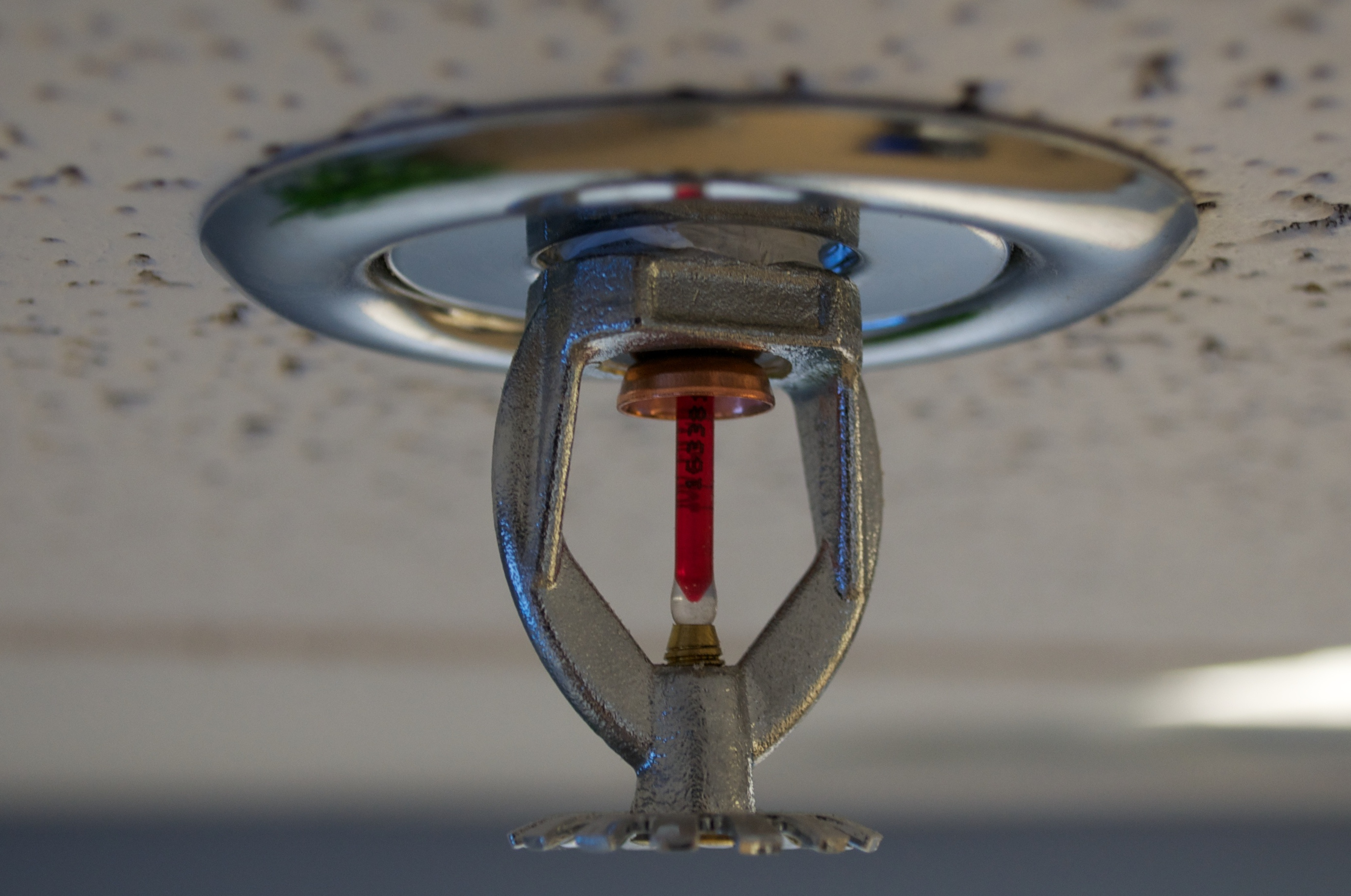 Fire sprinkler mounted on a roof